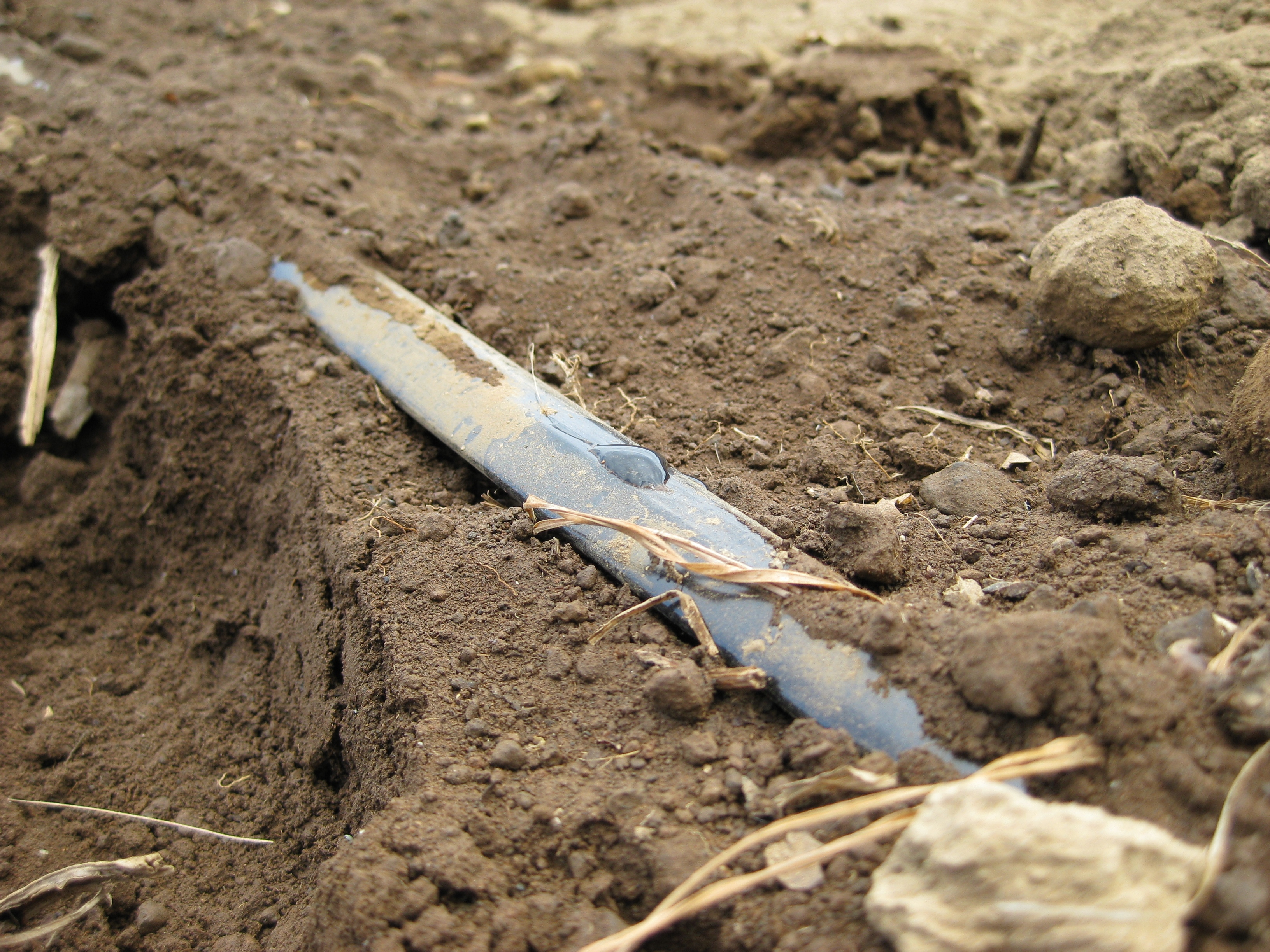 (from author) "The principle behind drip irrigation is to deliver water directly to the base of the plant, as opposed to indiscriminately watering the ground around the plants. This means that all the water being expended is being used to nourish the plant, while wasting less in the surrounding soil, and losing less to evaporation."